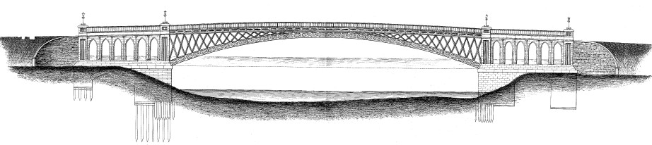 Design by Thomas Telford, drawn by F Mansell, source is from "Transactions of the Institution of Civil Engineers", published in 1838 and therefore now in the Public Domain as copyright has expired.